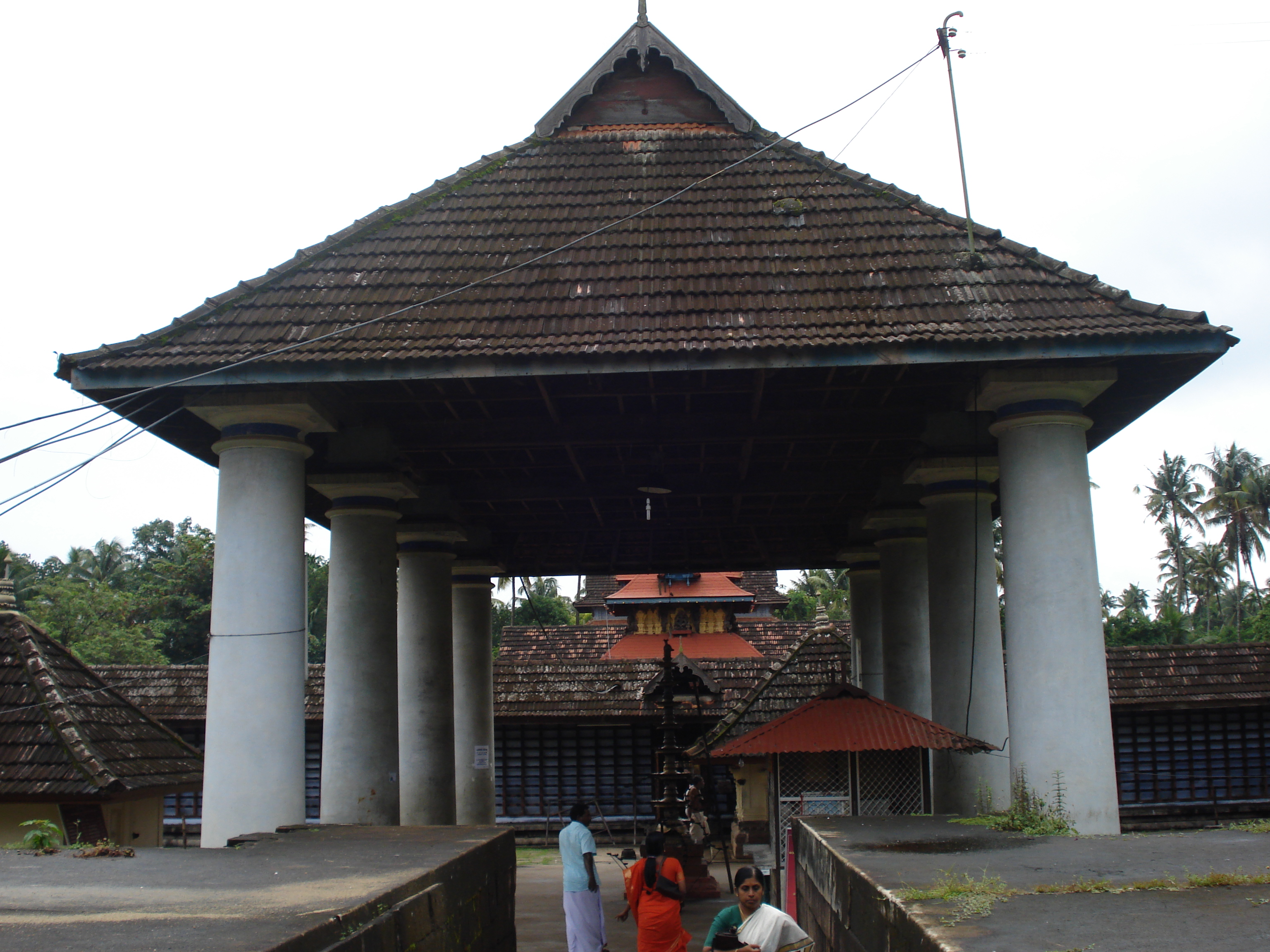 Thiruvanchikkulam Sivatemple